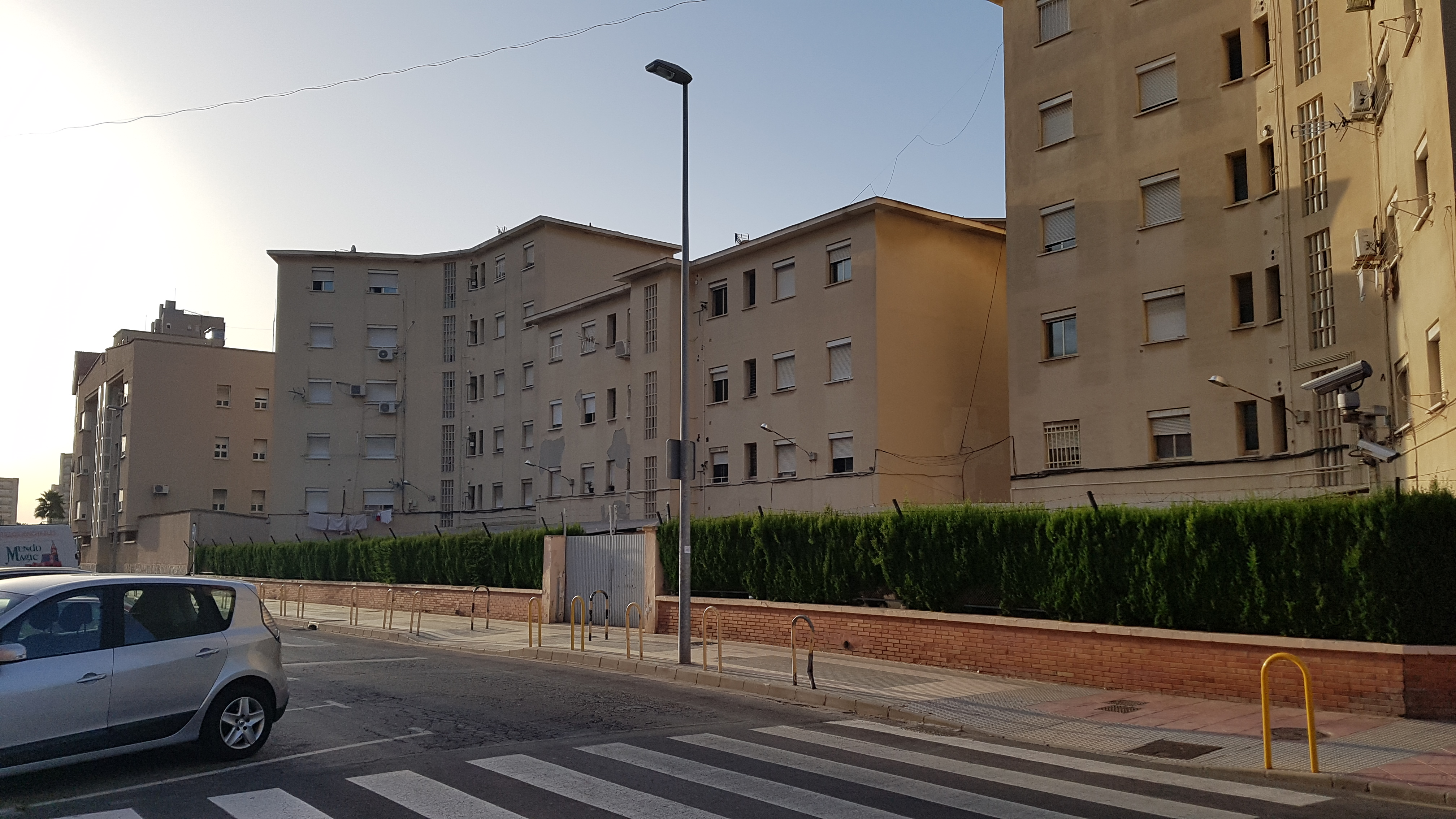 Homes attached to the Civil Guard barracks in Cartagena (Spain), on Calle de Alfonso X el Sabio. These buildings were the target of an attack by the terrorist organization ETA in September 1990, which resulted in no fatalities.